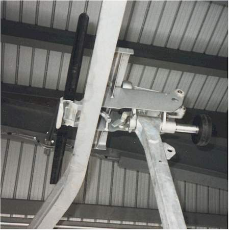 The grip of a Doppelmayr detachable quad chairlift built in 1985 as parked on a sidetrack in the lower lift terminal.